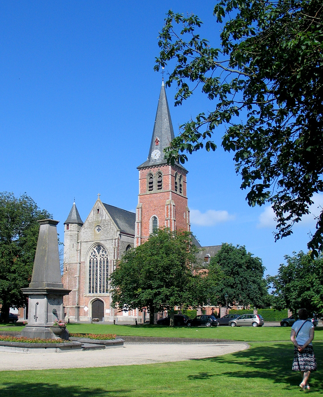 Church of Mary's assumption in Watervliet, Belgium